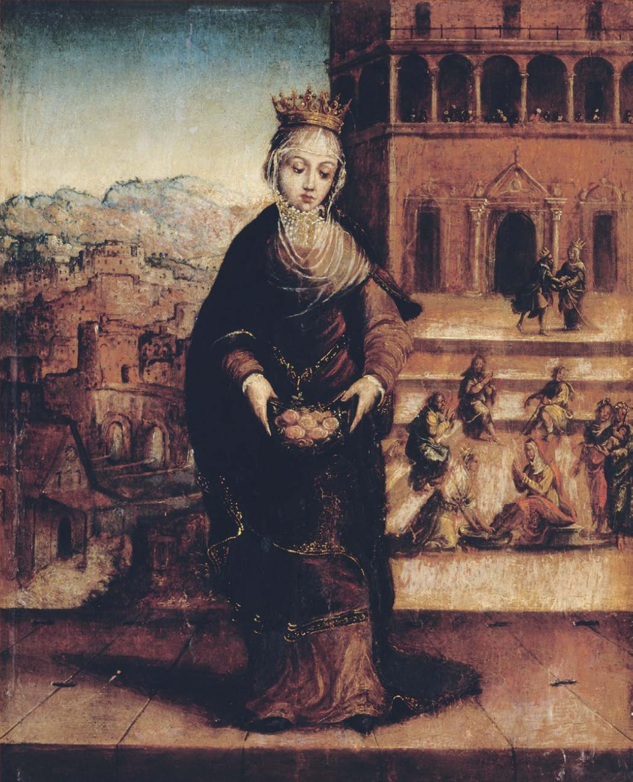 Retable of the Queen Saint Elizabeth (16th century), in the Museu Nacional de Machado de Castro.